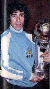 Jorge "Chino" Benítez with the Intercontinental Cup trophy in Buenos Aires.